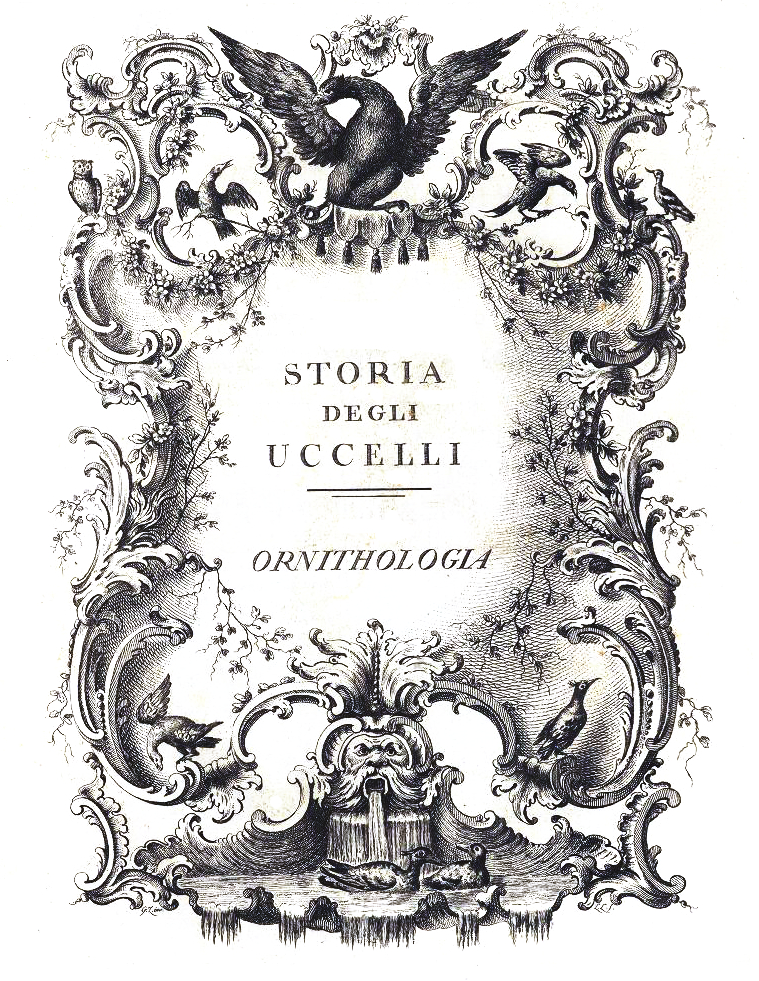 Cover page of Ornithologia methodice digesta volume 4 by Saverio Manetti